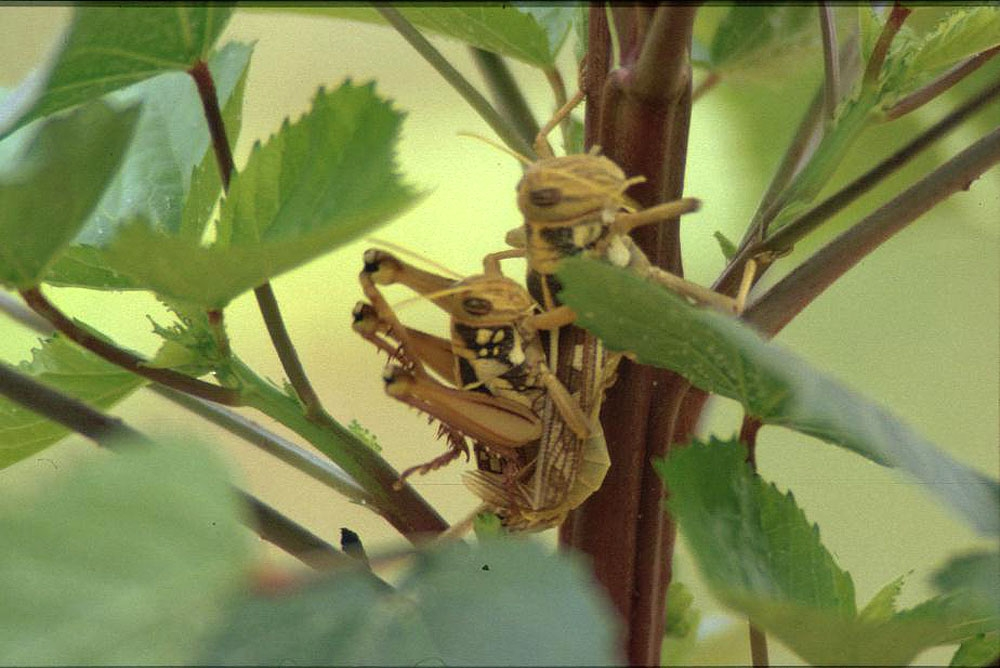 Copulating Kraussaria angulifera near Zinder, Niger.